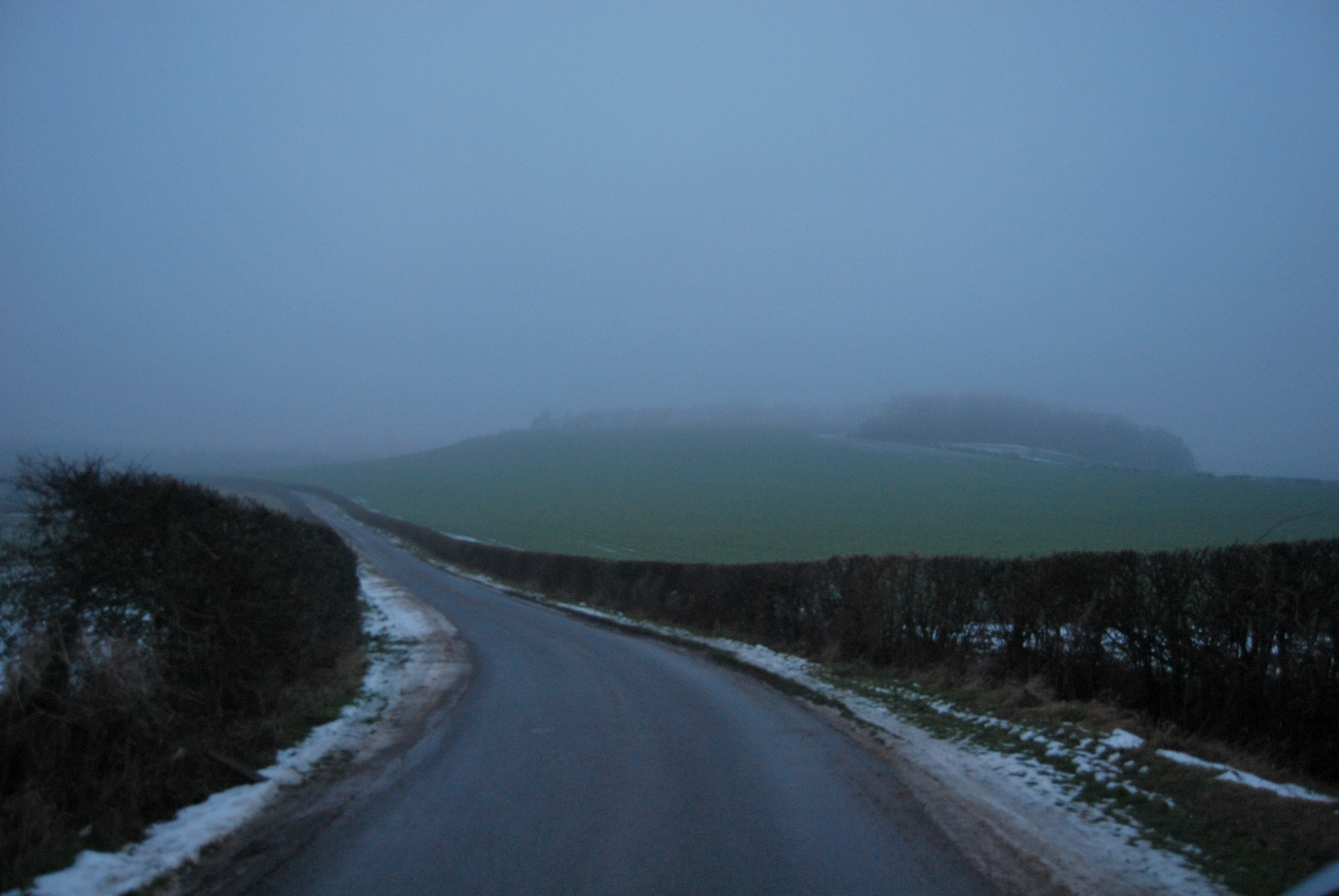 Hoe Hill near Clipston on the Wolds